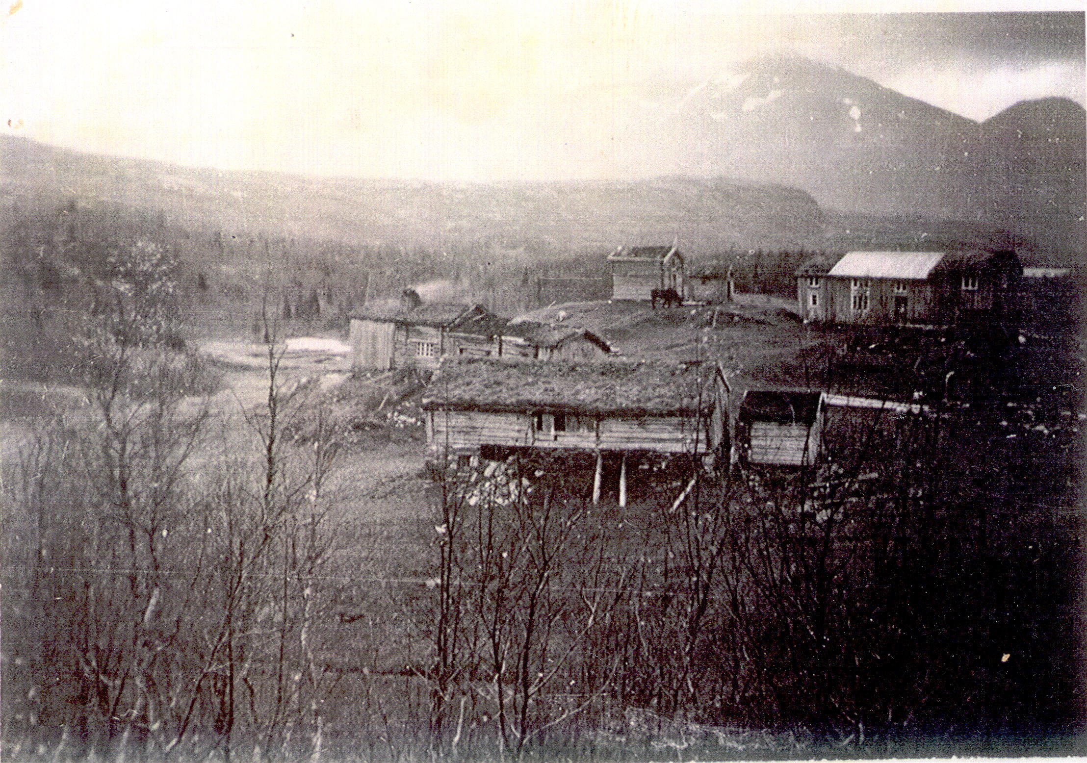 Photo of Svartvatnet gård (Svartvatnet farm), Korgfjellet. Photo from 1938, released into public domain by the historian Per Kristian Steinmo from Elsfjord in the municipality of Vefsn, on 18 September 2008